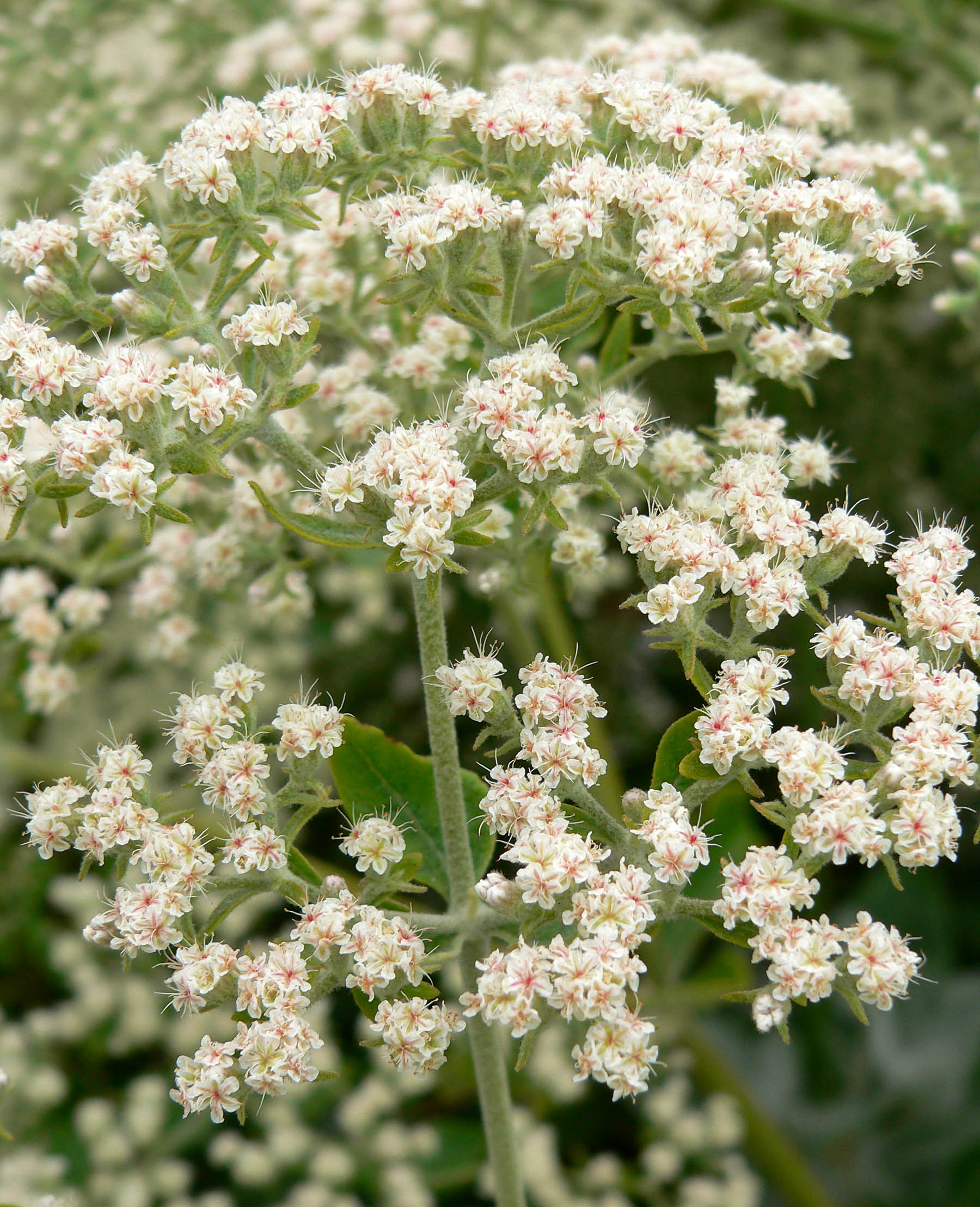 Photo of Eriogonum giganteum at the University of California Botanical Garden